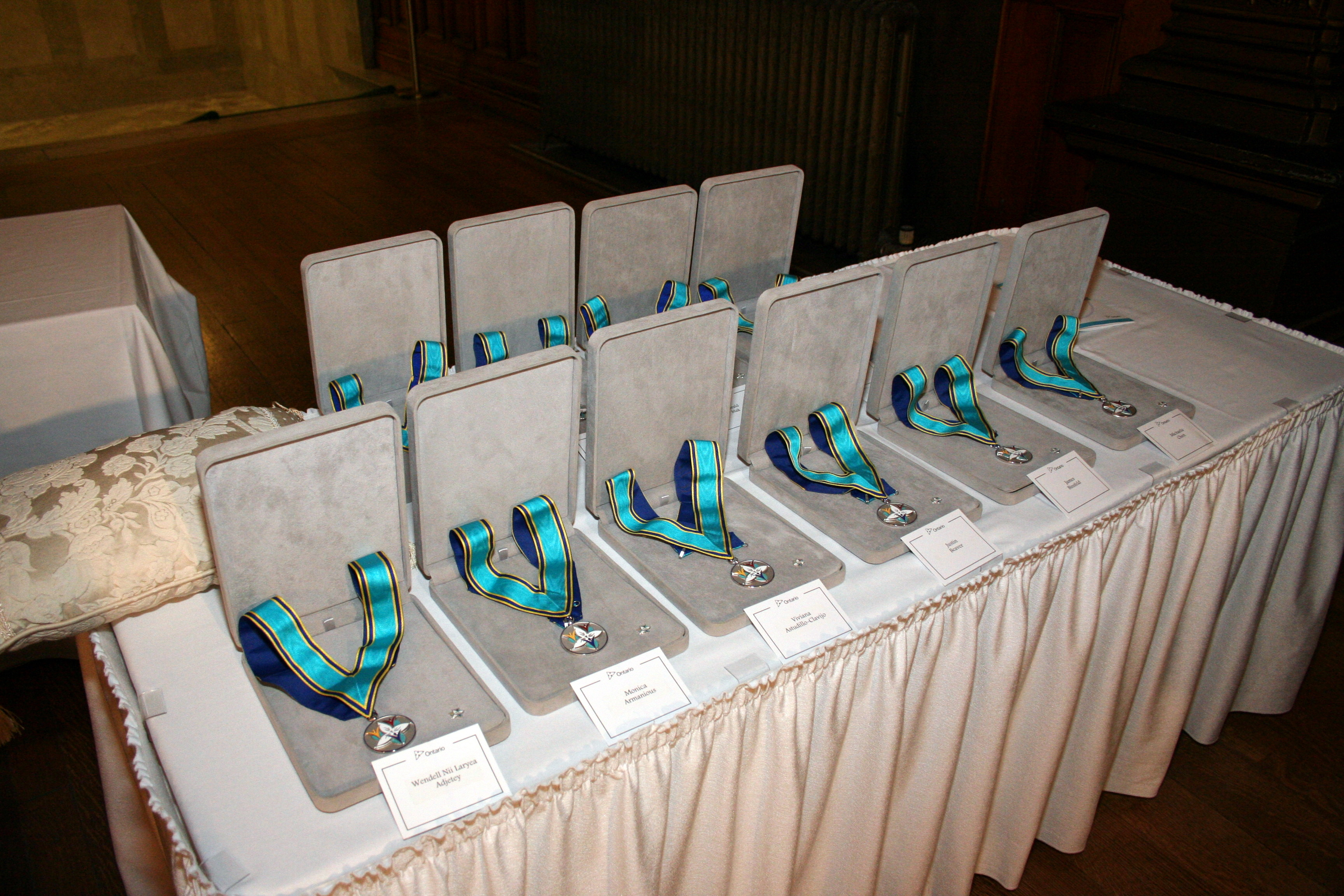 Ontario Medals for Young Volunteers before their presentation.